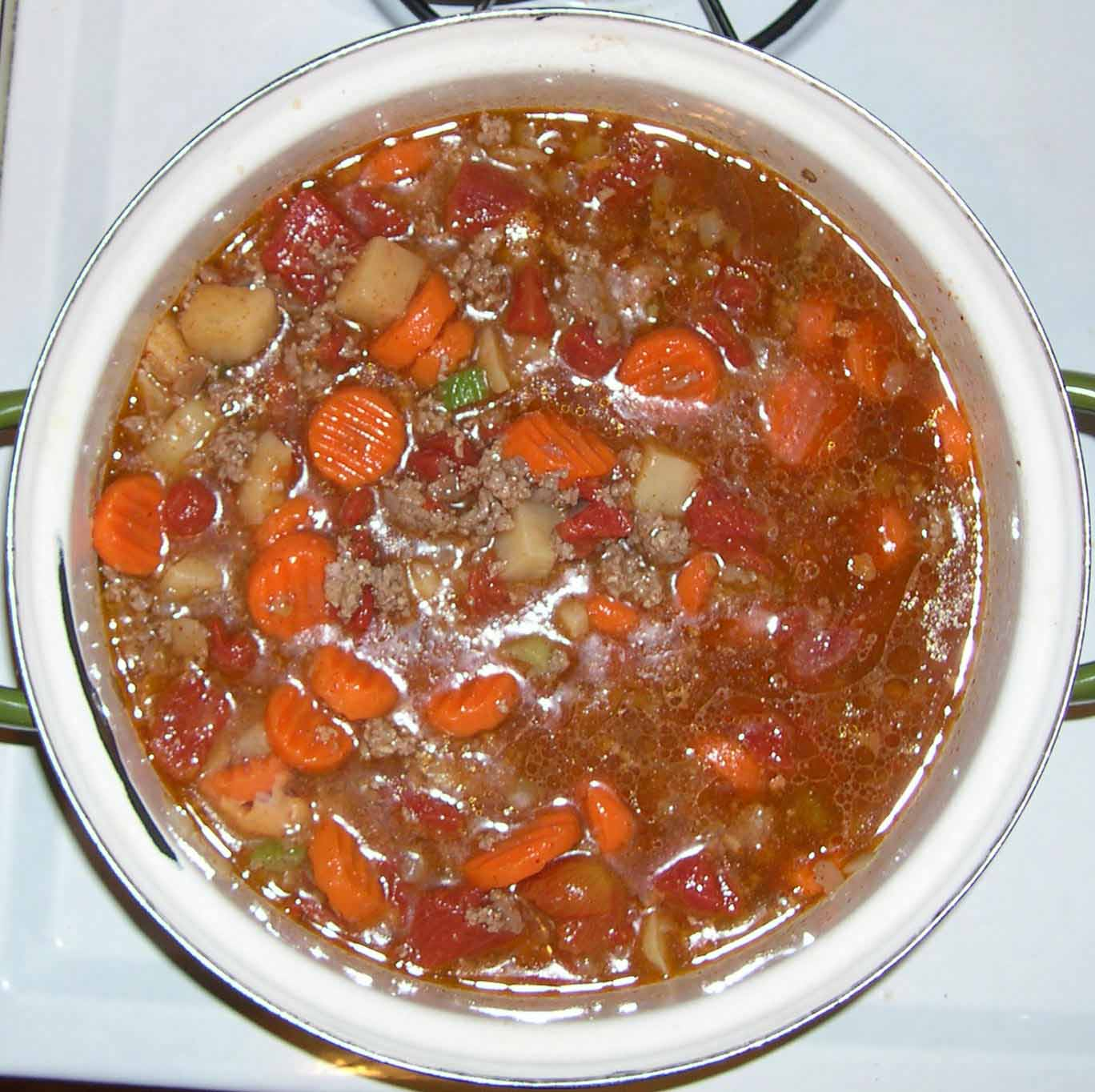 A nice beef stew for dinner.